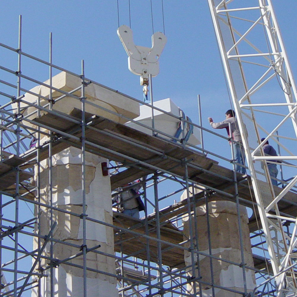 Reconstitution partielle (work in progress) of the Parthenon, Athens, to ensure structural stability